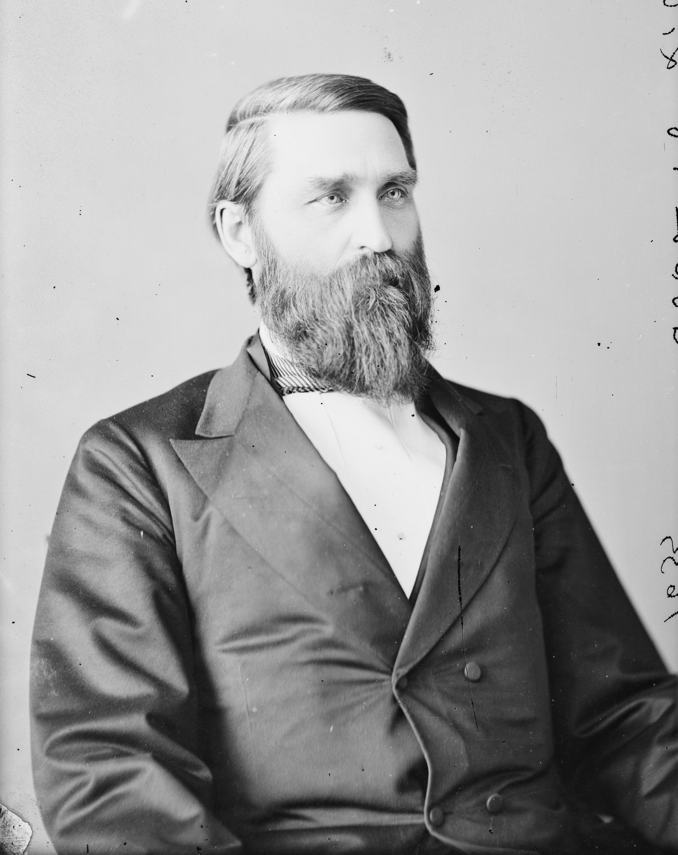 Lorenzo Crounse. Library of Congress description: "Crounse, Hon. Lorenzo of Neb. Rep. Raised a battery of light artillery in 1861 and entered the army as captain"